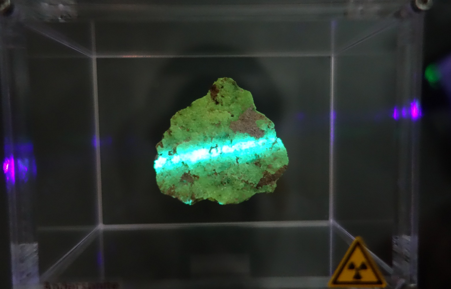 fluorescent Andersonite under exposure of 395nm UV-Laser, from Monte Cristo Mine, near Moab, Grand County, Utah, USA